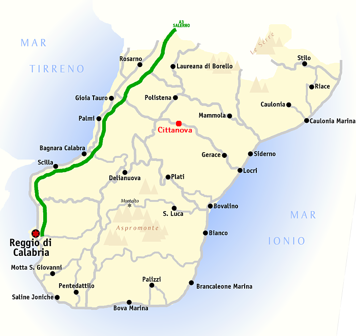 "Province of Reggio Calabria" Map, position of Cittanova